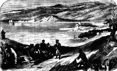 Coast of Tyre